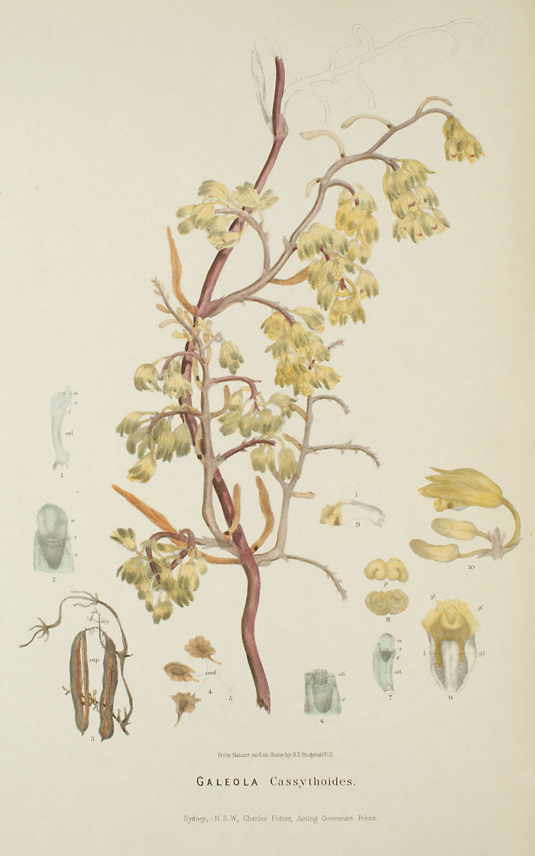 Illustration of Erythrorchis cassythoides from Fitzgeraldi, R. D.: Australian Orchids